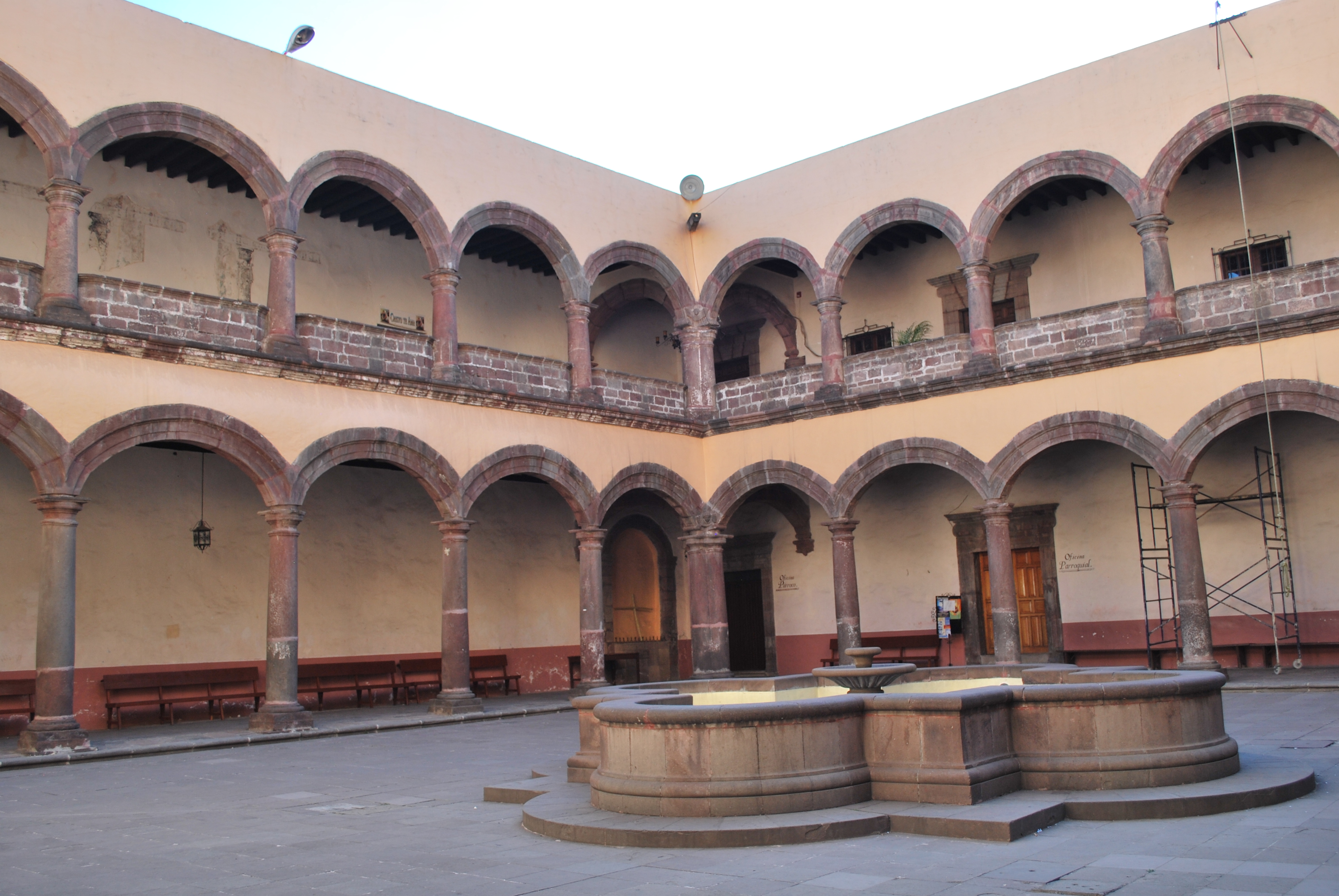 View of the cloister at the San Bernadino parish in Xochimilco, Mexico City